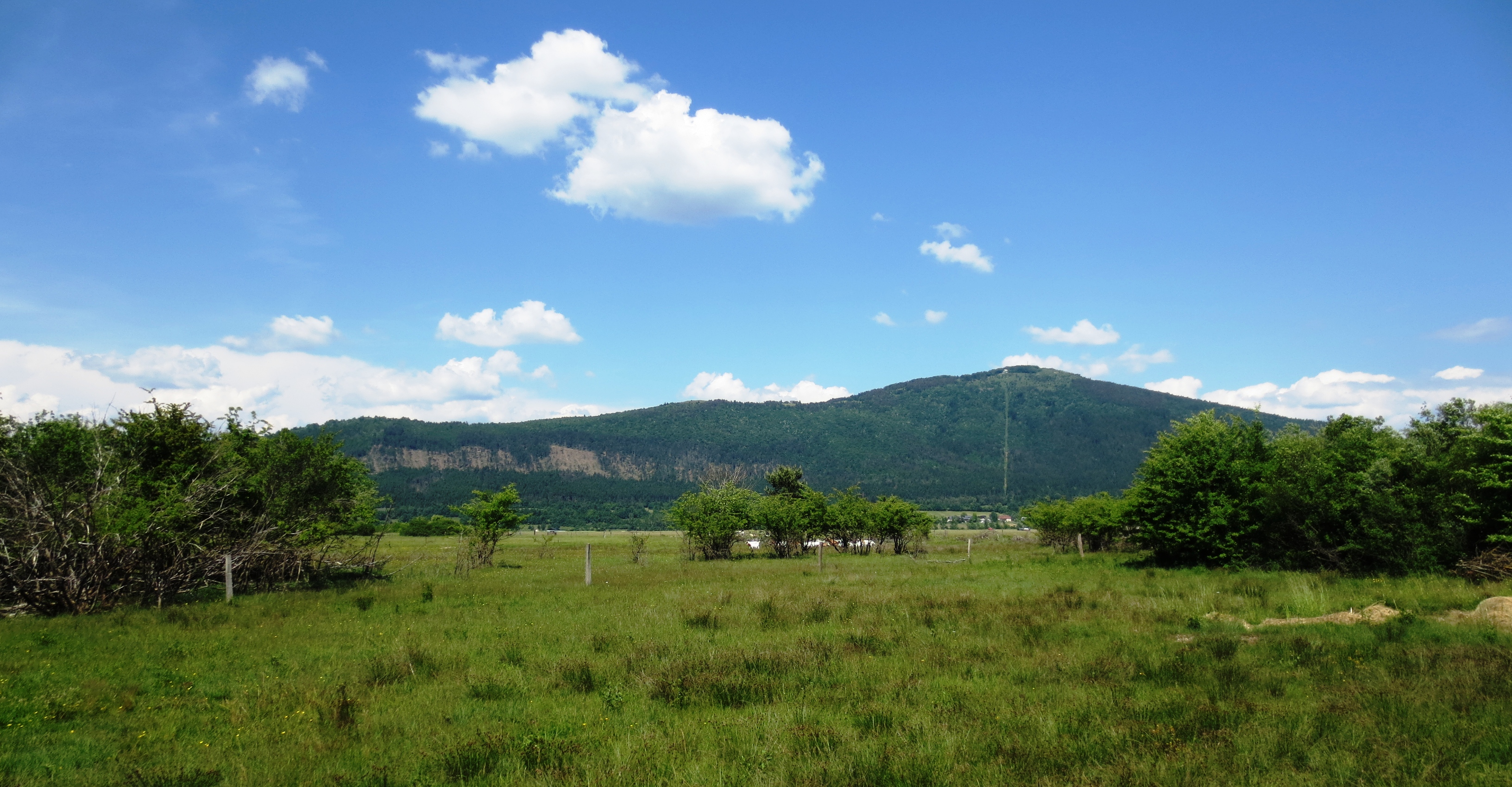 Slivnica&Cerkniško jezero